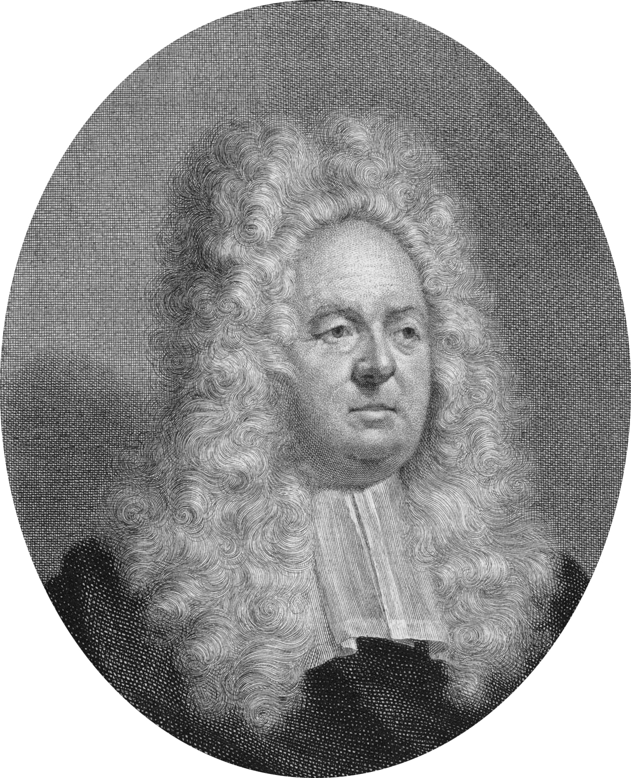 Jan Six II (1668-1750) dutch politician and businessman